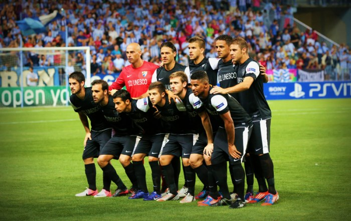 Málaga CF vs FC Zenit St Petersburg, 18 Septembert 2012, UEFA Champions League.